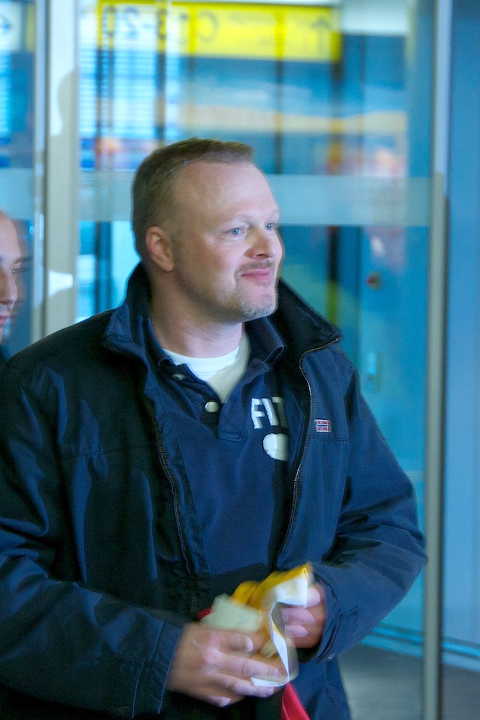 Stefan Raab in Hannover, 2010